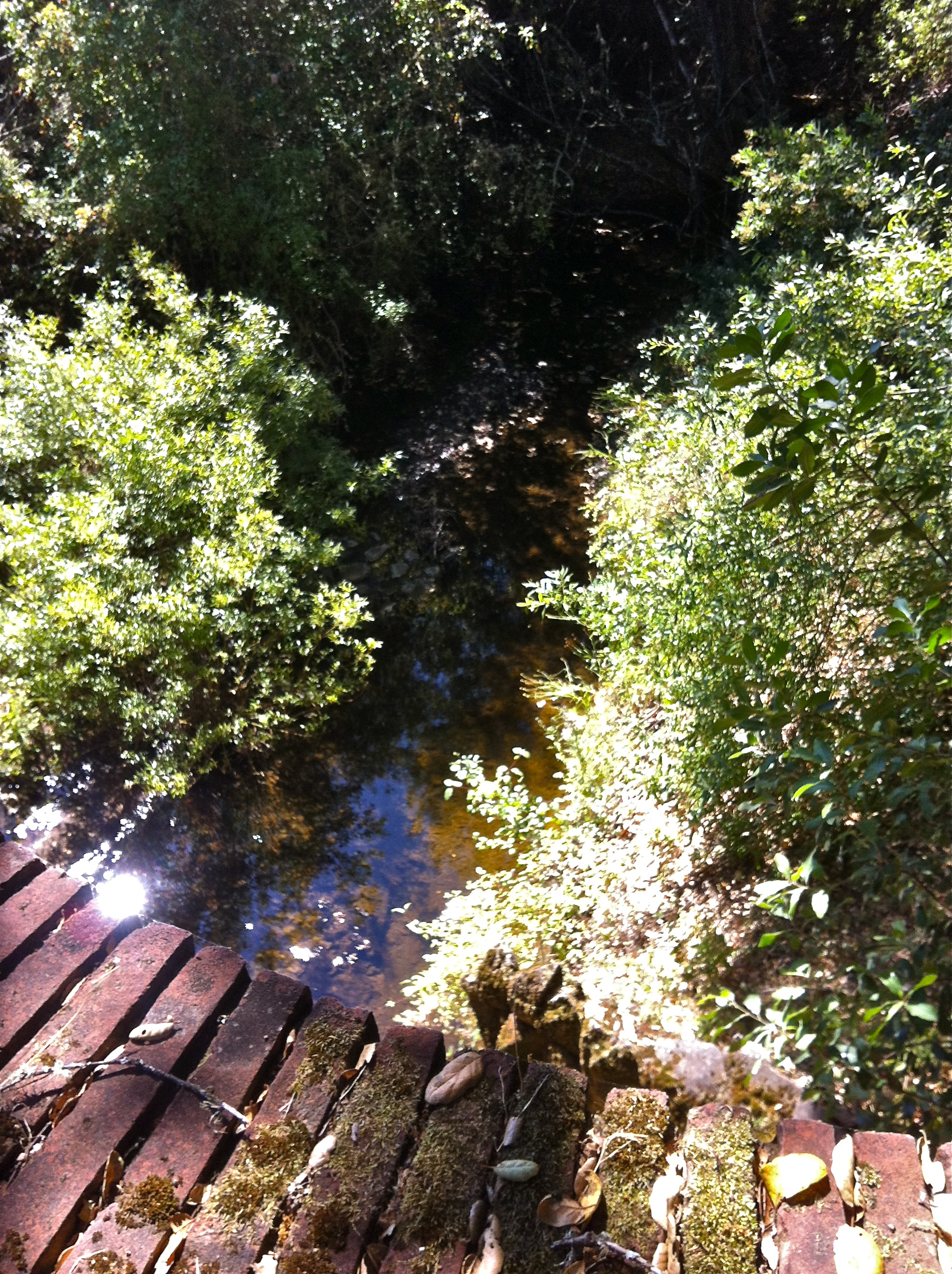 Mid-August perennial pool in Laguna Creek upstream from South Bridge at Filoli